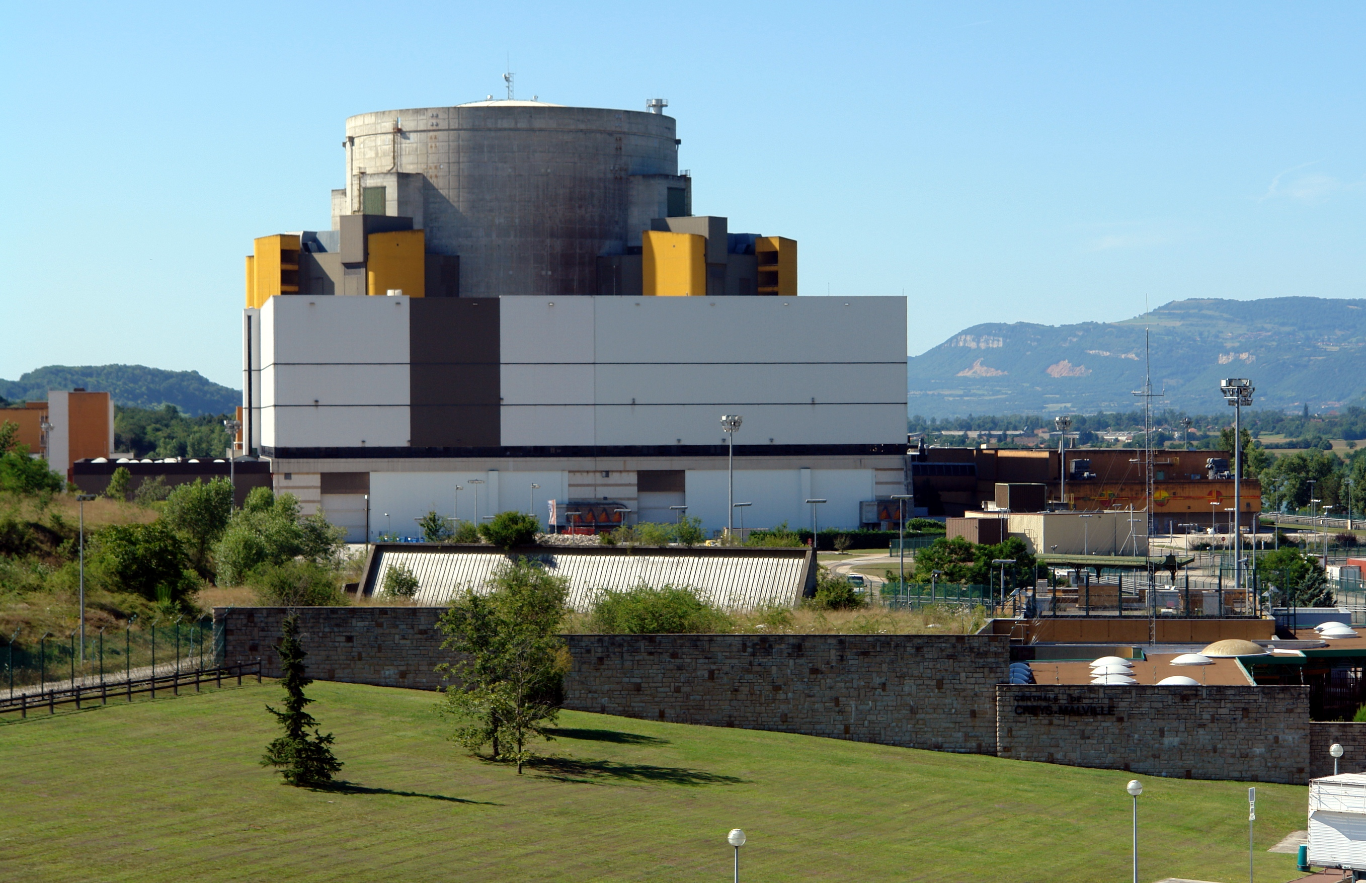 Superphenix, Nuclear reactor of Creys-Malville, south side, Isère, France.